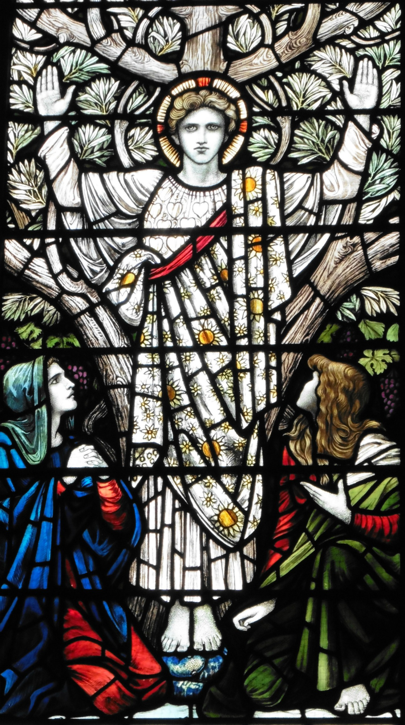 Youth 1905-1910 by William Blake Richmond, Holy Trinity Church, London